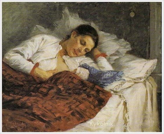 Mother and Child